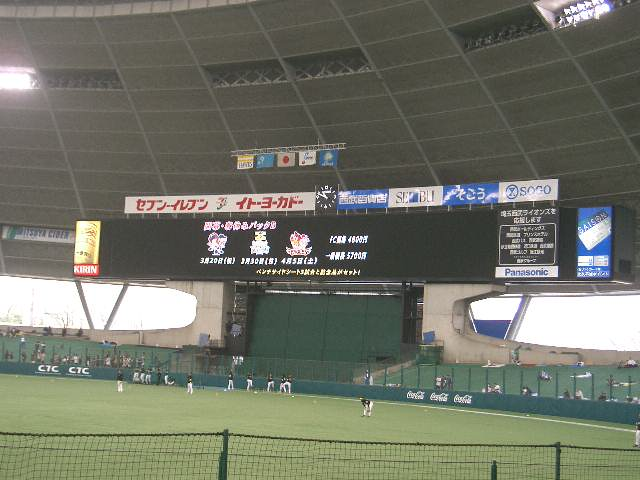 Whole view of L vision.